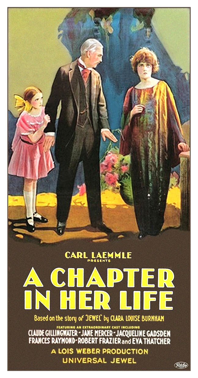 Poster for the American drama film A Chapter in Her Life (1923) with Jane Mercer.